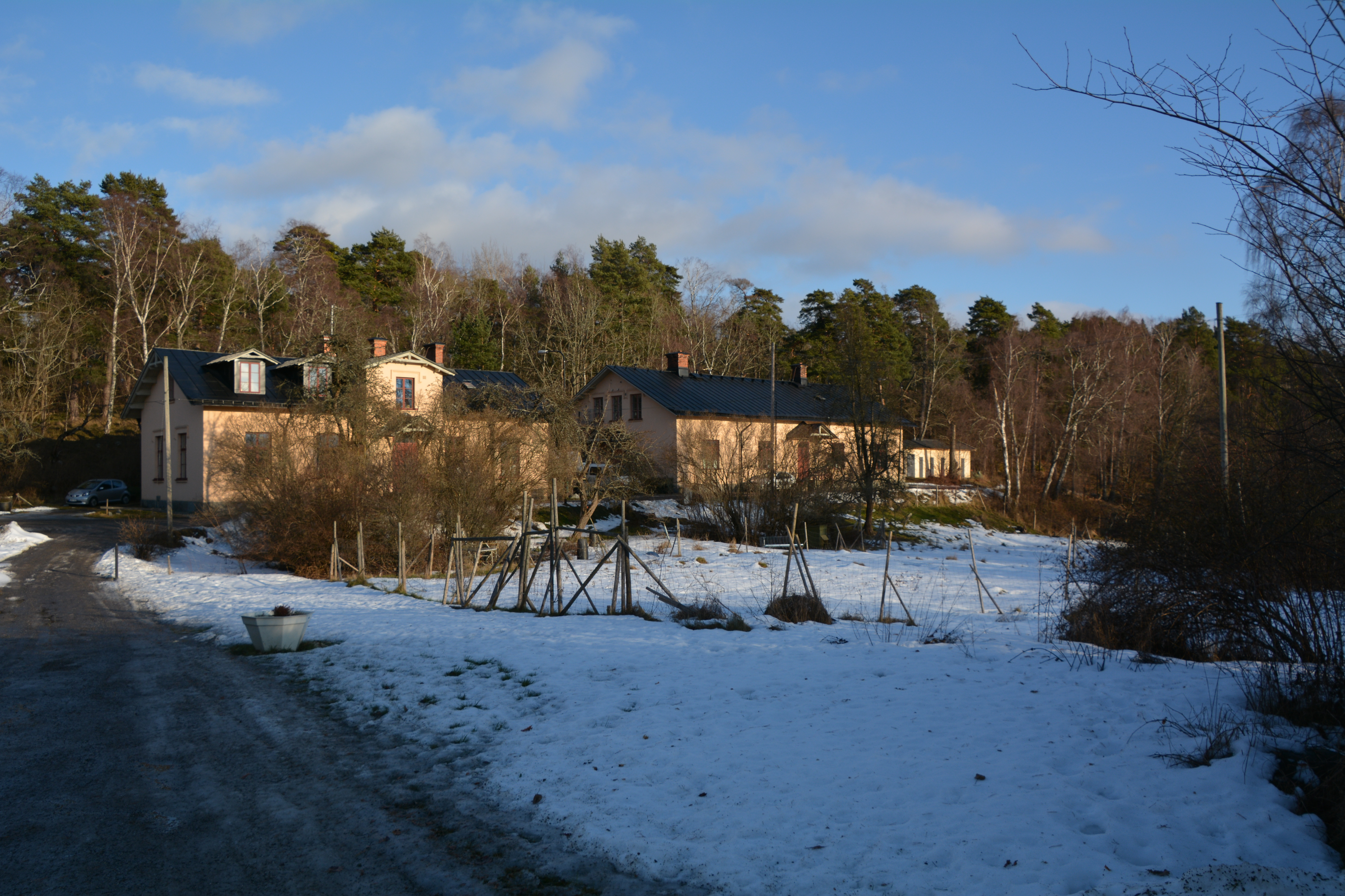 Kyrkhamn